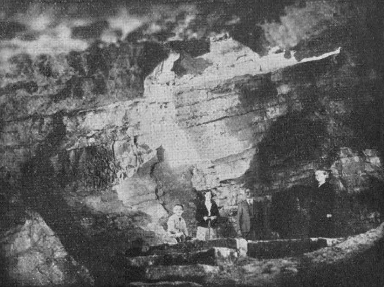 Lóczy Cave - Upper room. (Balatonfüred, Hungary)